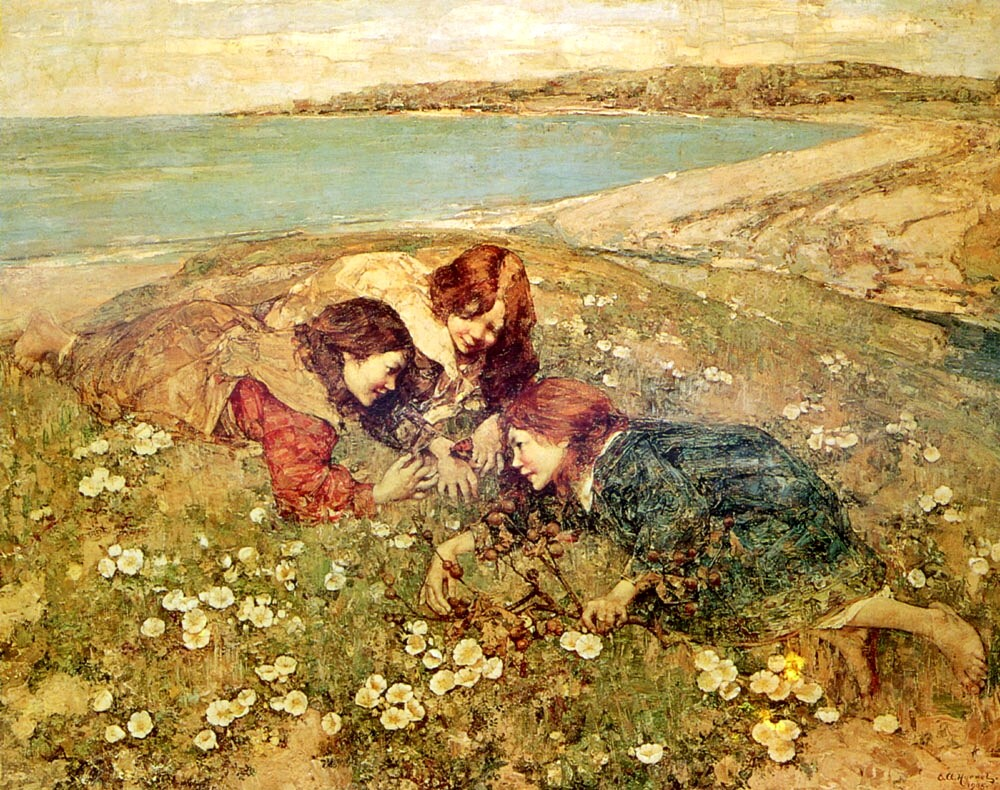 The Captive Butterfly